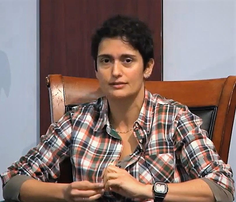 Advancing Universal Health Coverage Through Smart Choices - Panel 1 As countries around the world work toward universal health coverage, leaders are looking for ways to best use resources to improve health and promote long-term economic development and social stability. Consensus is evolving over how to achieve these goals and ensure coverage considerations are equitable, transparent, evidence-based, and responsive to the needs of patients and local health systems. Join the Center for Strategic and International Studies Global Health Policy Center March 11 for a vigorous discussion of coverage policy options with international and country experts. Speakers represent the World Health Organization, the World Bank, NICE International, the U.S. government, and the private sector. Additional participants will discuss innovative approaches being taken in Thailand, Mexico, and China. Lunch will be provided. Panel 1: Global Approaches to Coverage Decision Making Kalipso Chalkidou Founding Director, NICE International